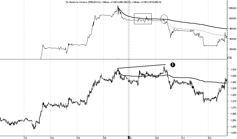 gen 4 curve